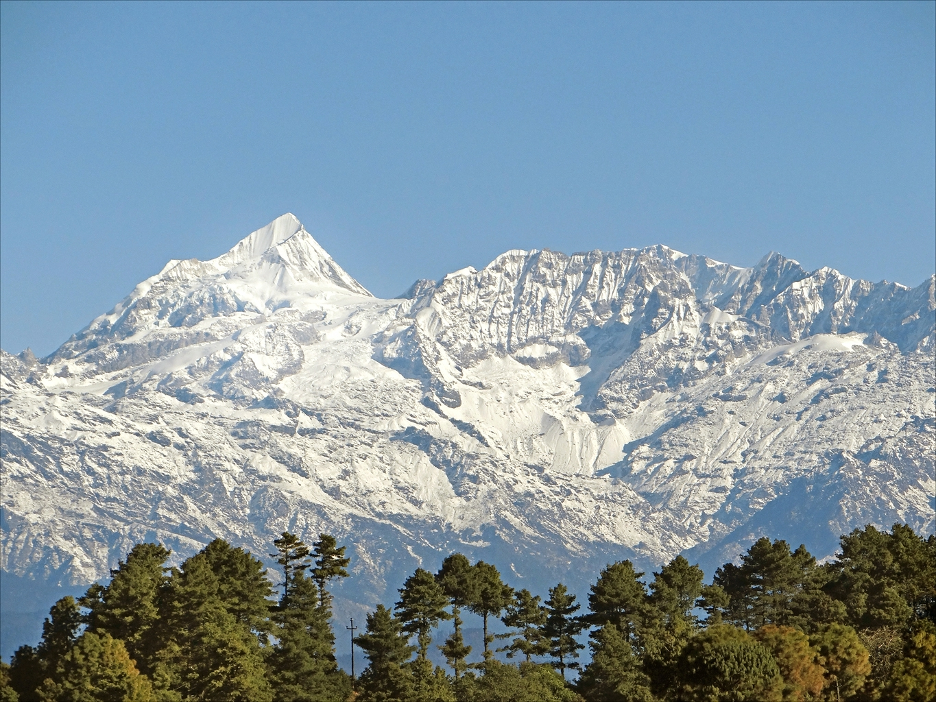 South face of Gangchempo (Fluted Peak) 6387 m, as seen from Nagarkot at 1980 m. Nagarkot is a village in the Bhaktapur district of Nepal, about 20 miles east of Kathmandu and 14 km northeast of Bhaktapur. Nagarkot is located at the top of the mountains to the east of the Kathmandu Valley. The view is of the "Langtang Himalayan Range".